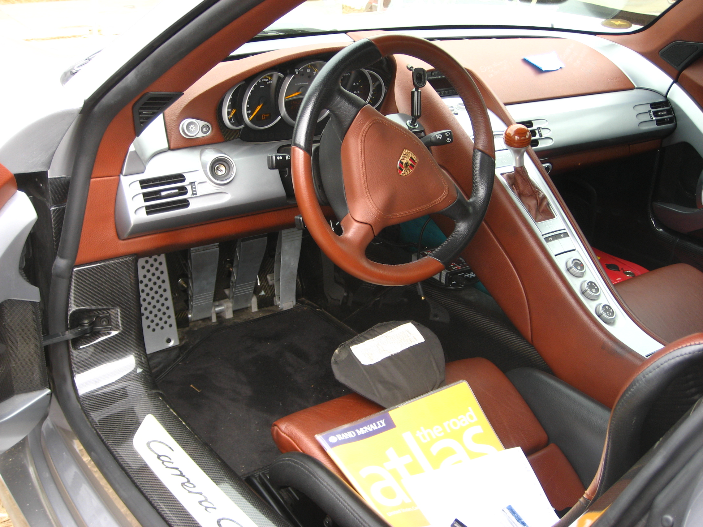 The interior of a Porsche Carrera GT